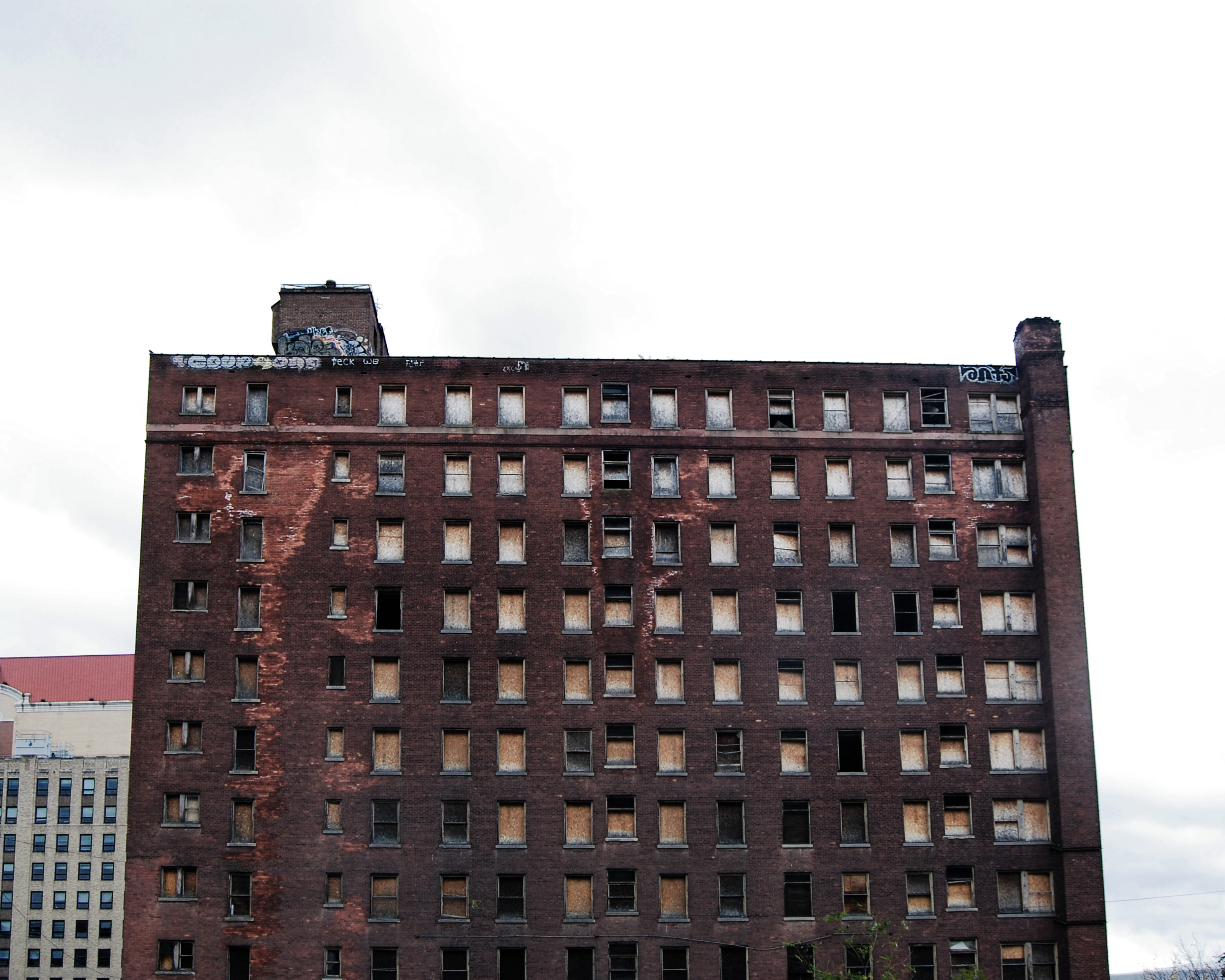 Wellington Hotel Annex in Albany, New York as seen from the north.